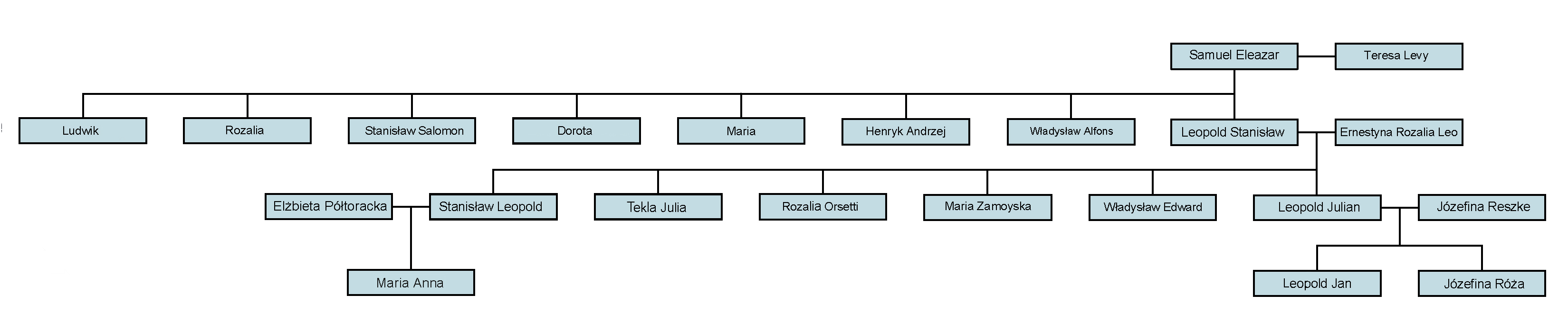 Polish Kronenberg family